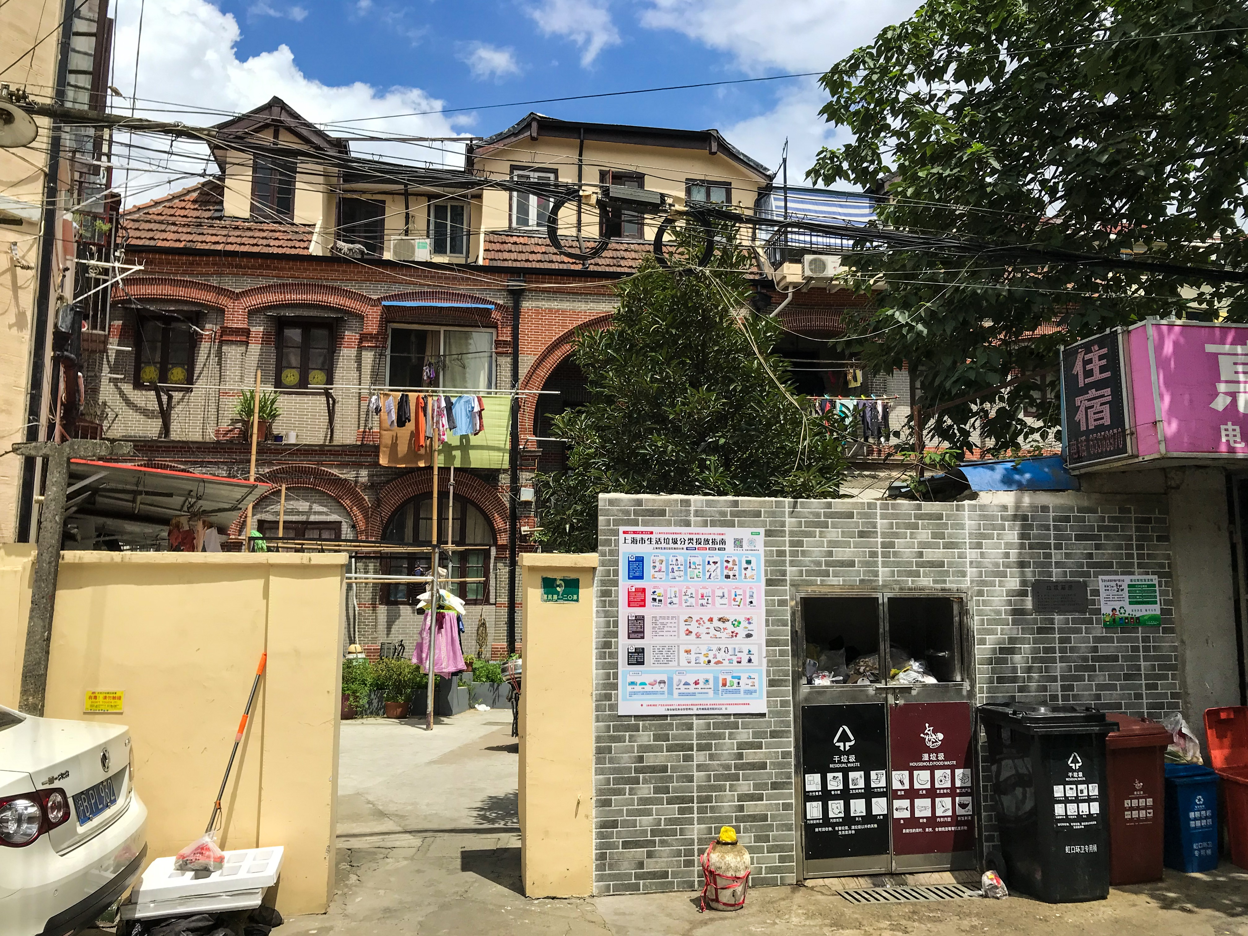 Site of former Russina Orthodox Church of Our Savior